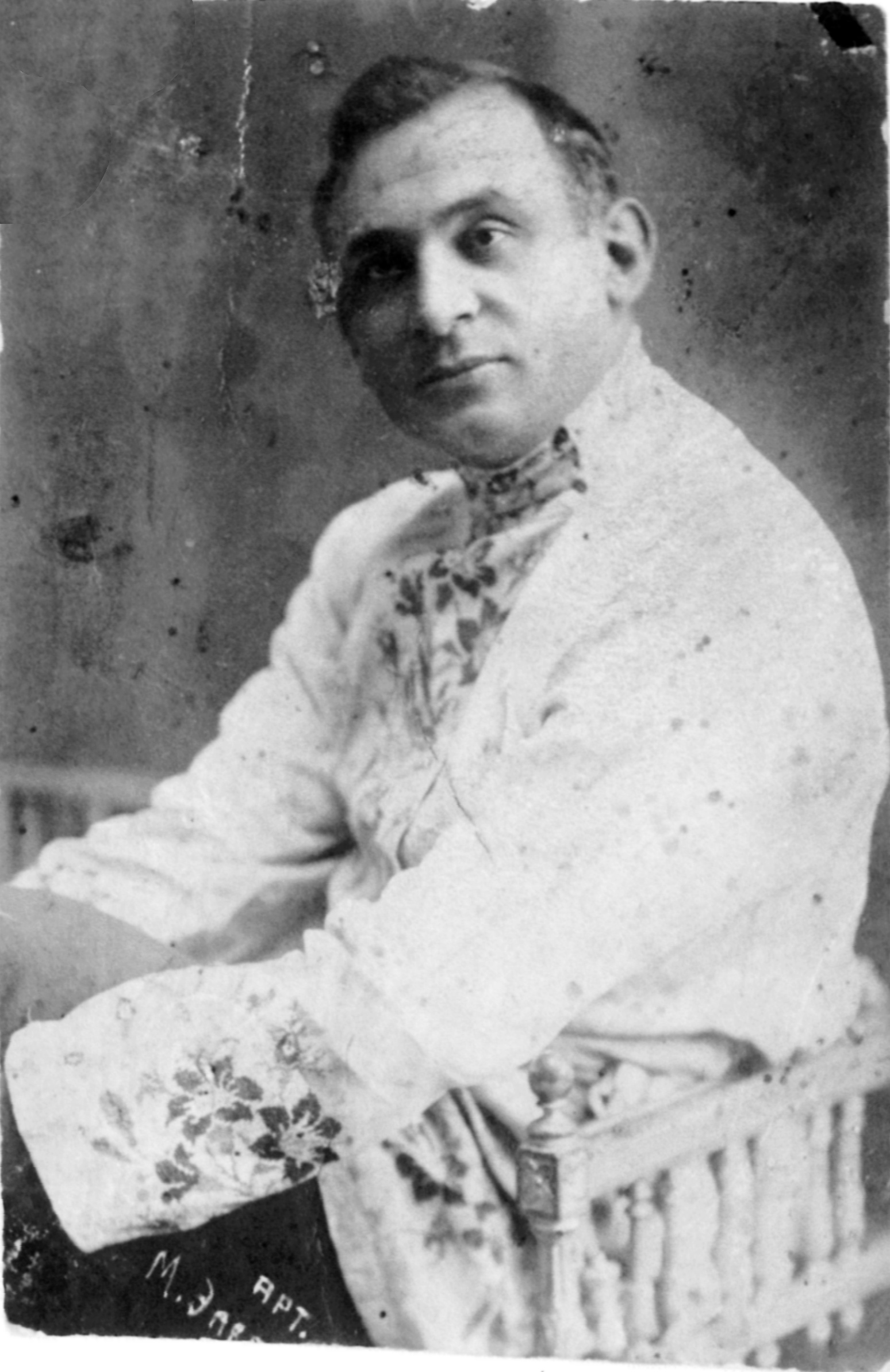 A photographic portrait of Mikhail Epelbaum (Михаил Иосифович Эпельбаум), AKA Misha Appelbaum, a Yiddish and Russian singer from Russia/USSR who was famous during the first half of the twentieth century